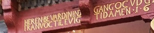 Inscription above entrance to the yard